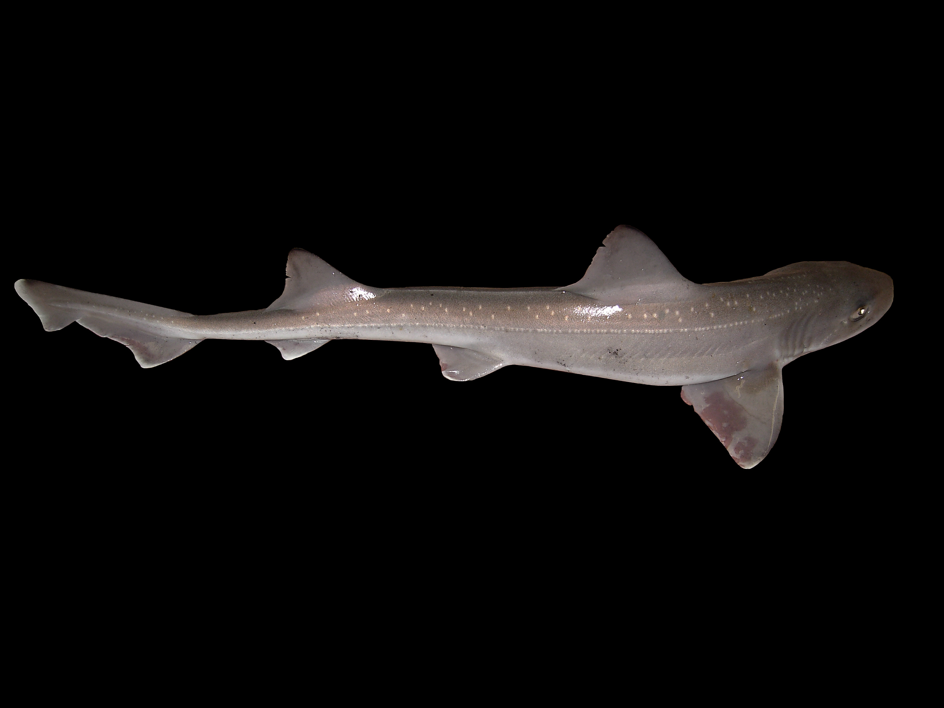 Starry smooth hound from the Southern North Sea.